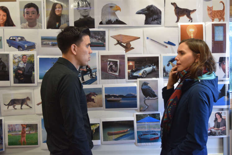 Students of Haida language dialects K'iis X̱aad Kil and G̱aaw X̱aad Kil learn from one another.